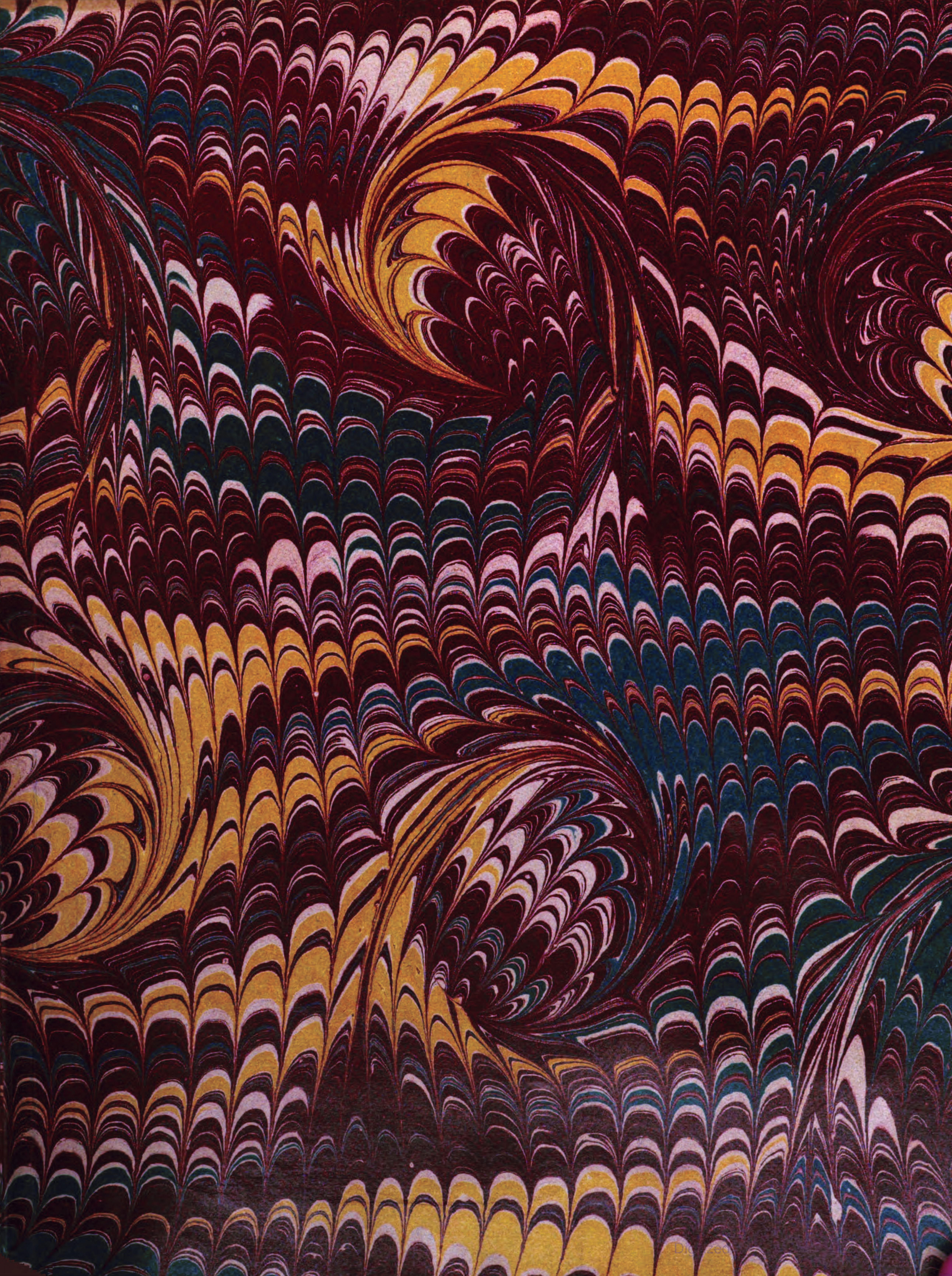 Paper_marbling Marbled paper from inside front cover the book, The snakes of Australia, an illustrated catalogue (1869).